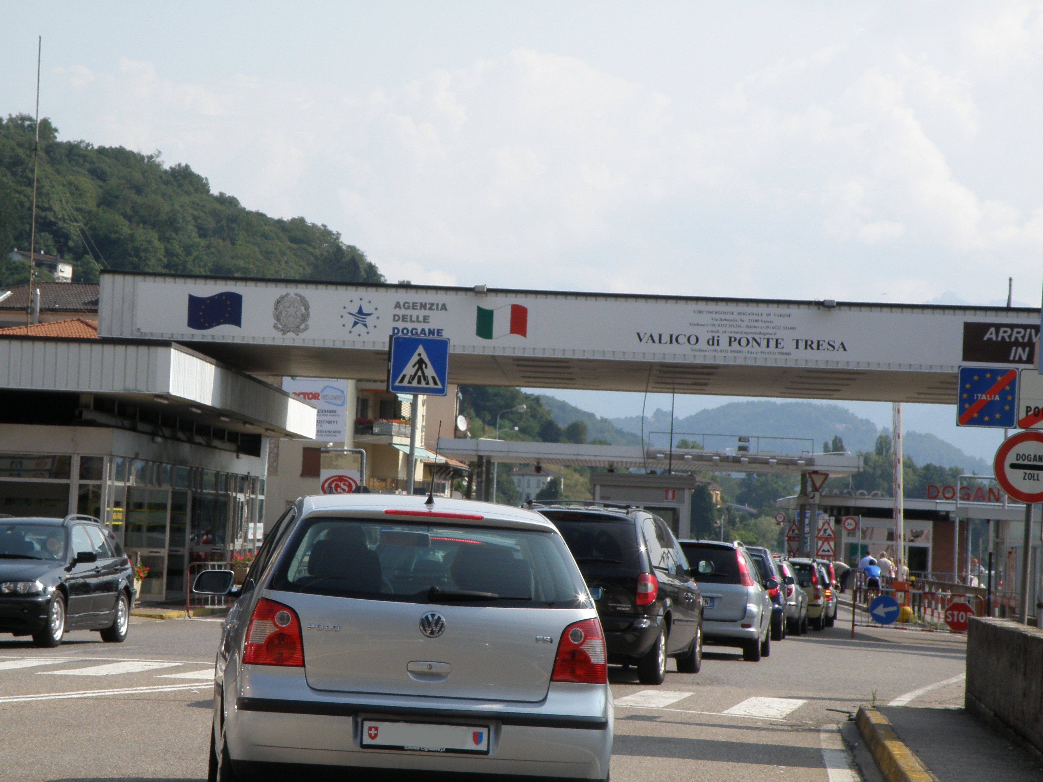 frontier of Italy and Switzerland (Ponte Tresa zoll)